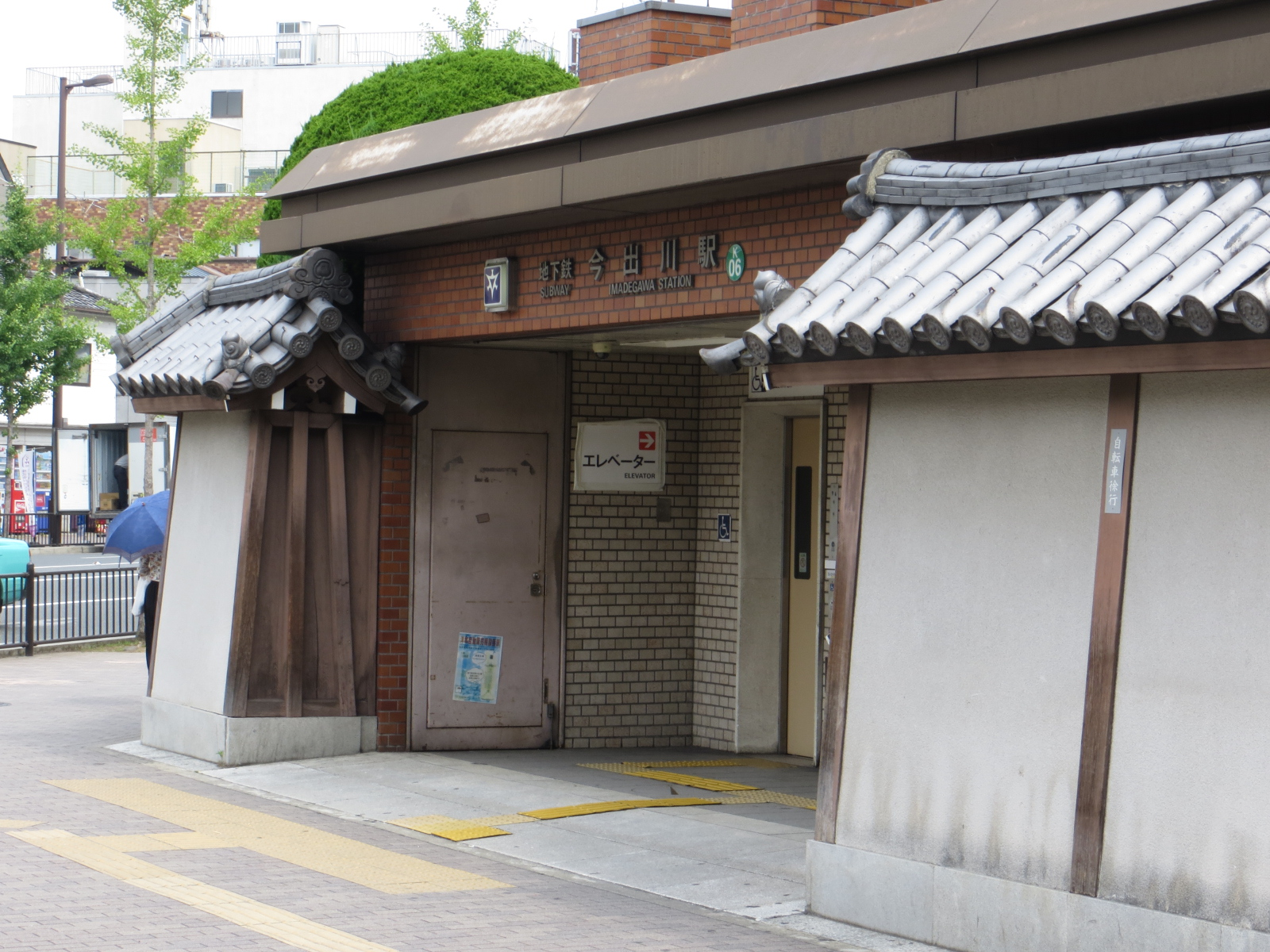 3rd Exit from Imadegawa Station(K06), Karasuma Line.